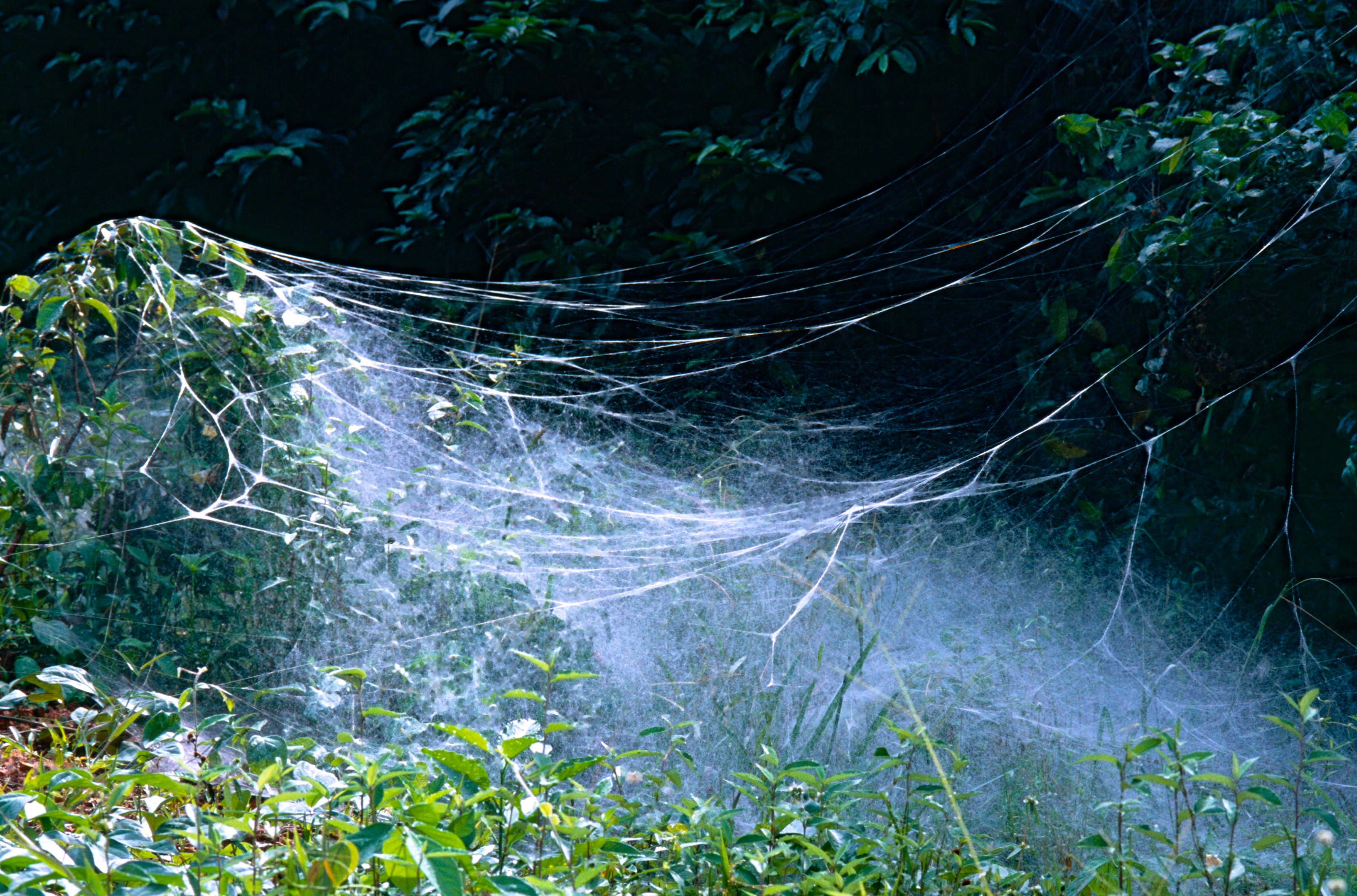 Montagne de Kaw, Guyane, FRANCE Scanned Slide from 2001